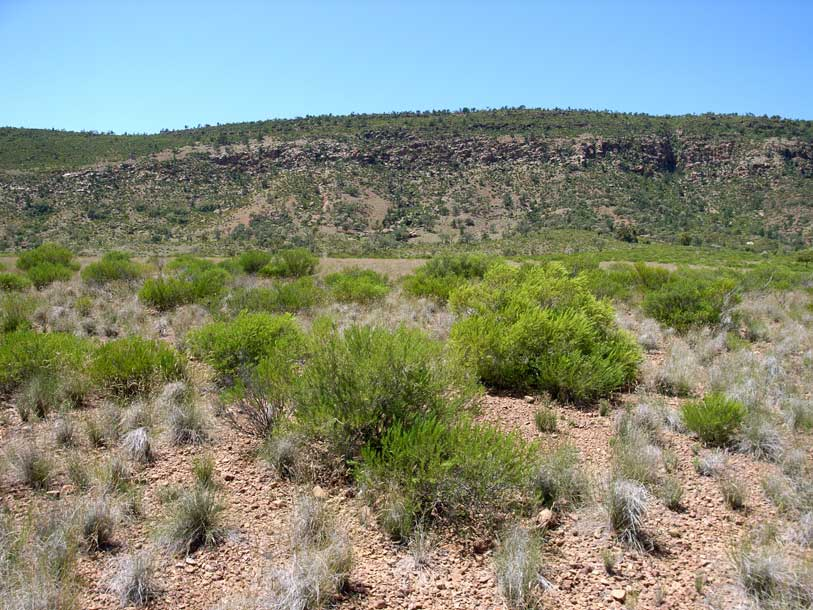 Philotheca linearis in Gundabooka National Park, south of Bourke, New South Wales